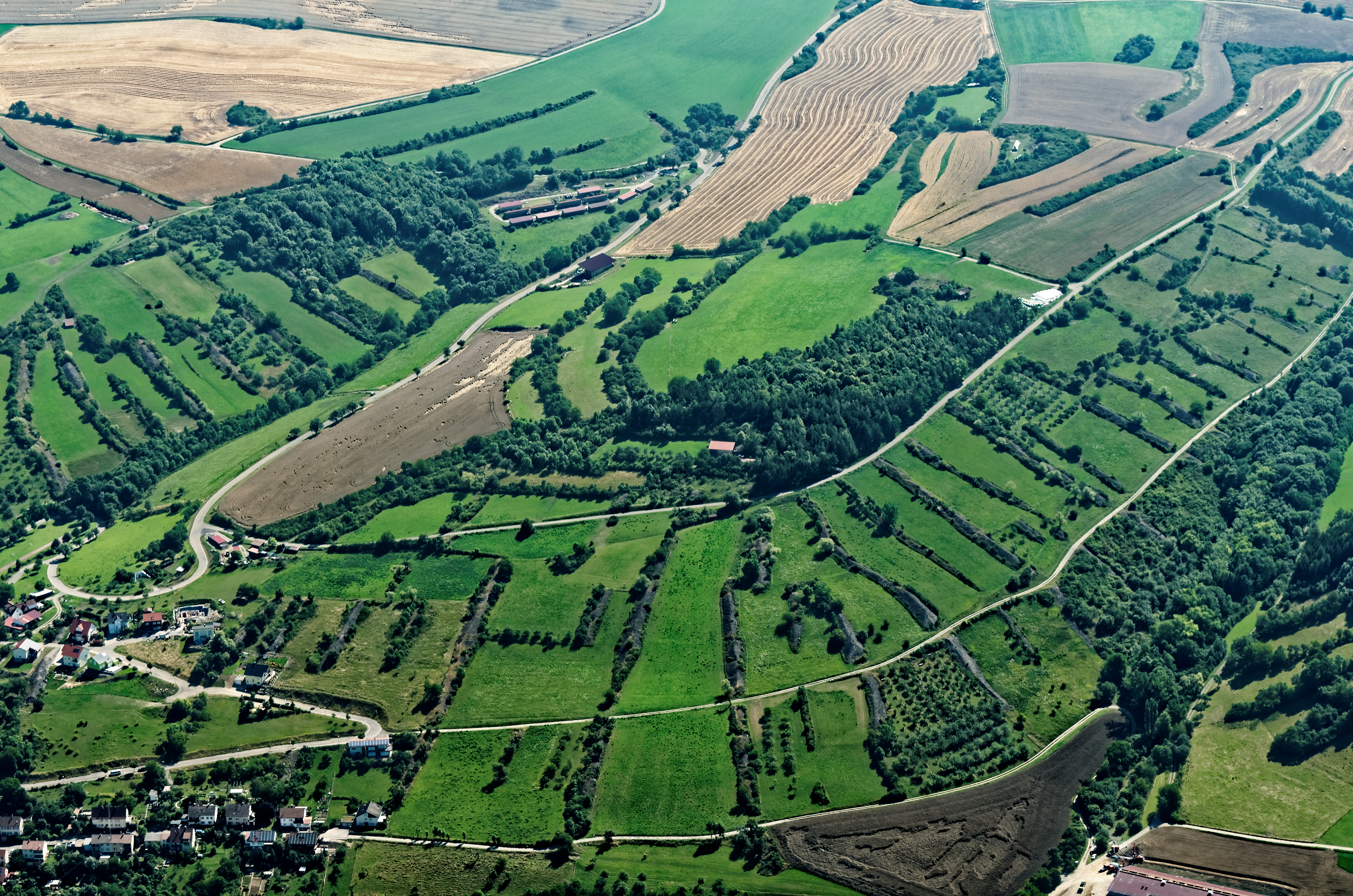 clearance cairns in Tauberfranken. Traditional way of rural cultivation. In the back: modern agriculture with machinery.